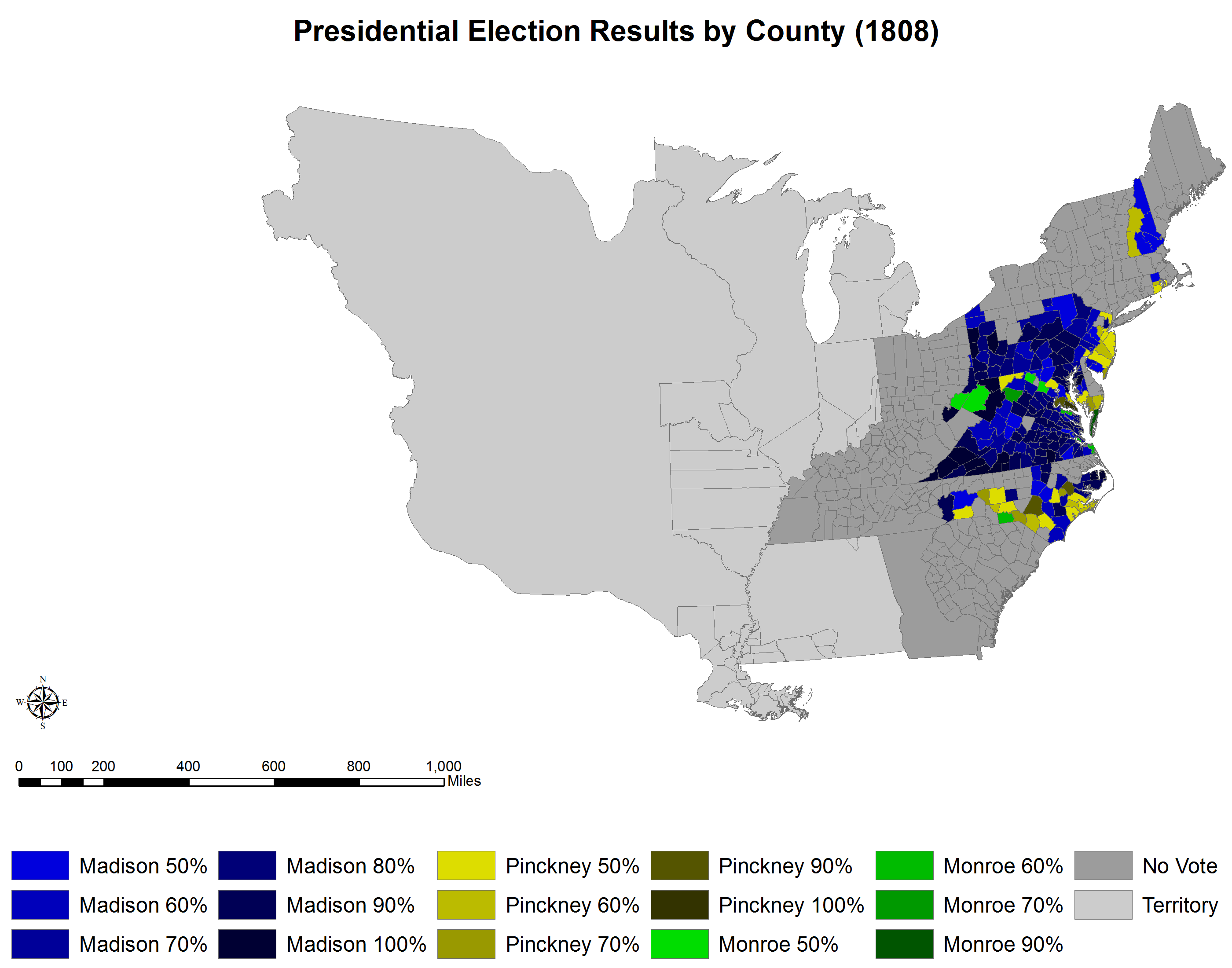 Presidential election results by county (1808).